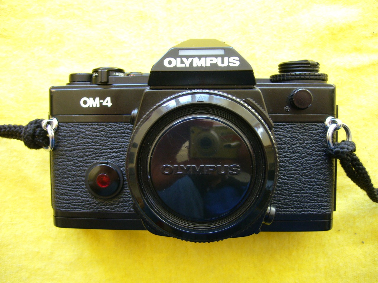 Olympus OM-4 camera body (without a lens fitted).